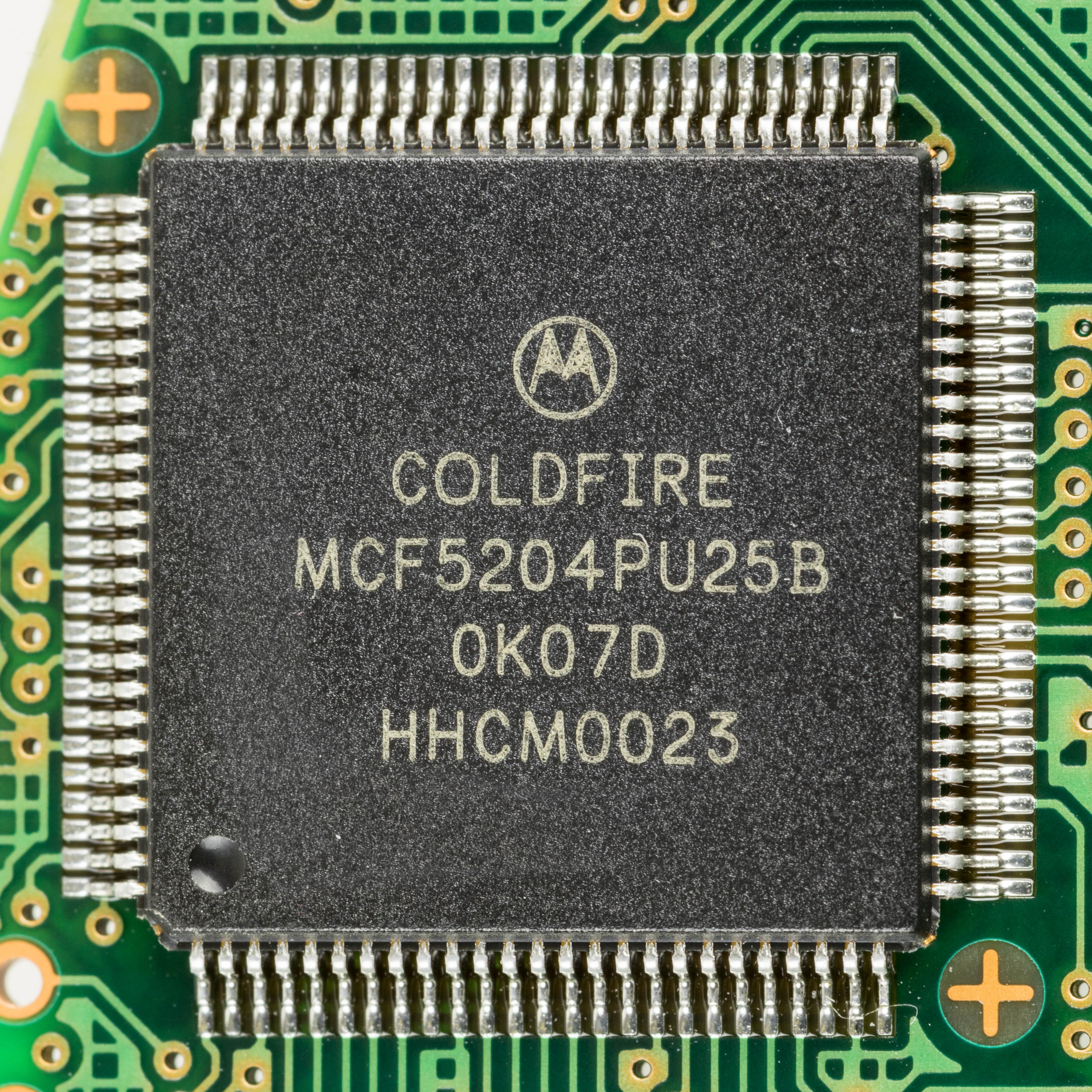 Hermstedt Webshuttle II - board - Motorola Coldfire MCF5204PU25B - Integrated Microprocessor. 100 Pin TQFP Package